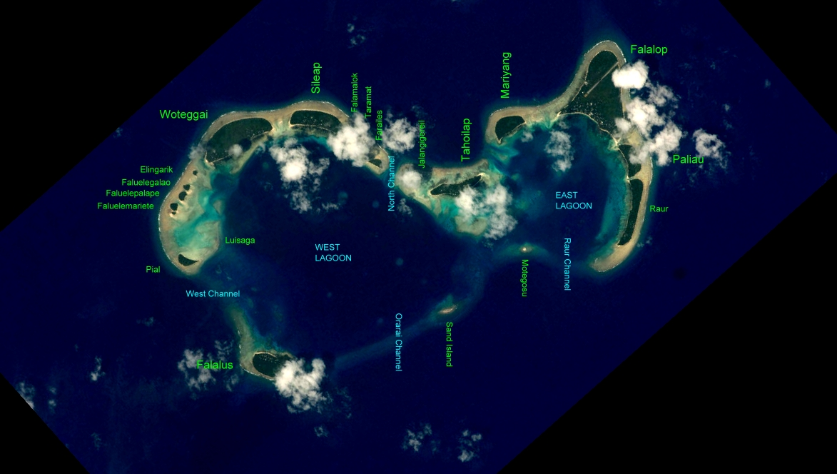 ISS photograph ISS021-E-9441 Woleai Atoll, Outer Islands, Yap State, Federated States of Micronesia, Pacific Ocean image oriented north, contrast and brightness enhanced island and channel names added by uploader